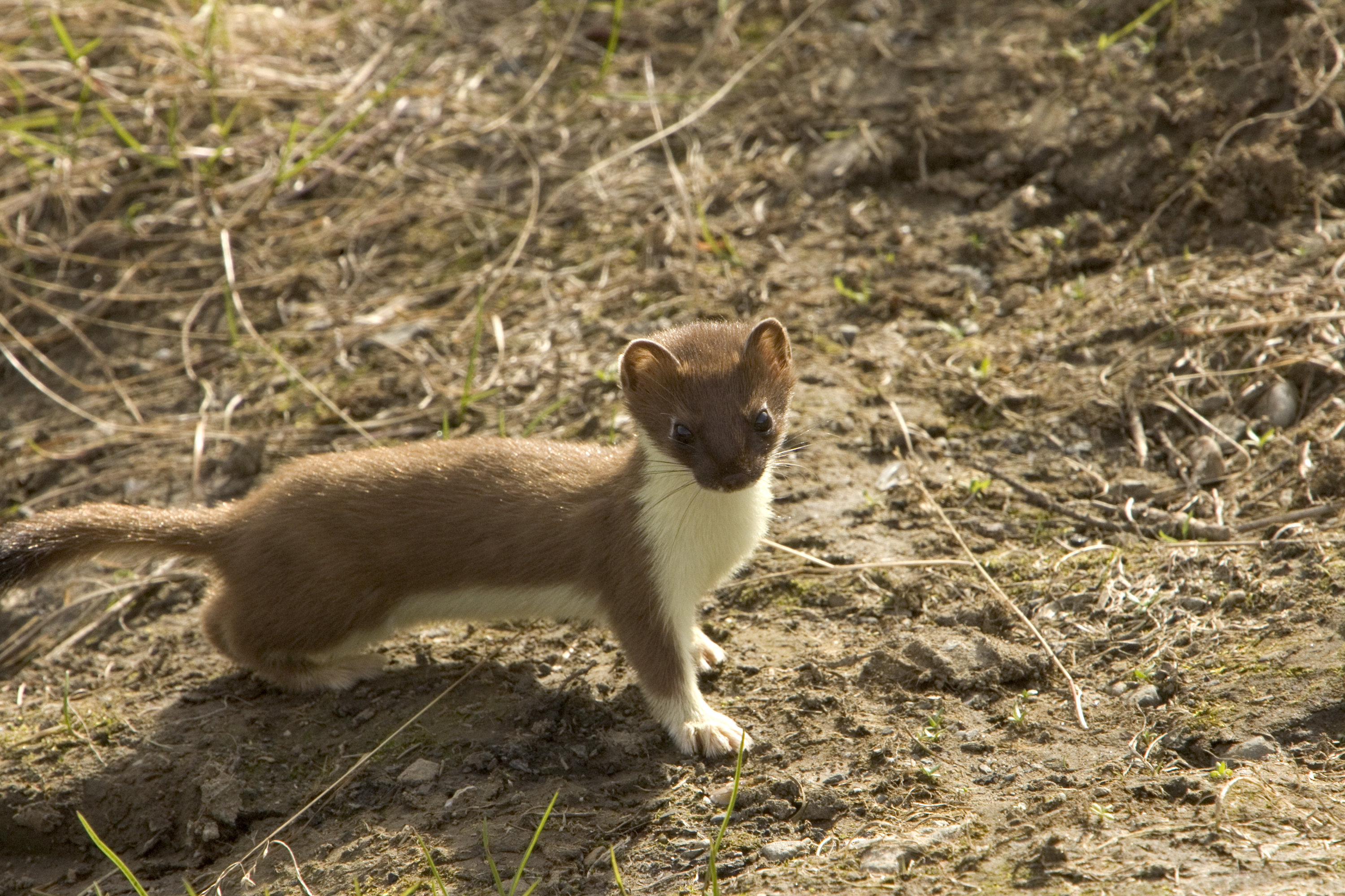 Short-tailed weasel (Mustela erminea), summer coat